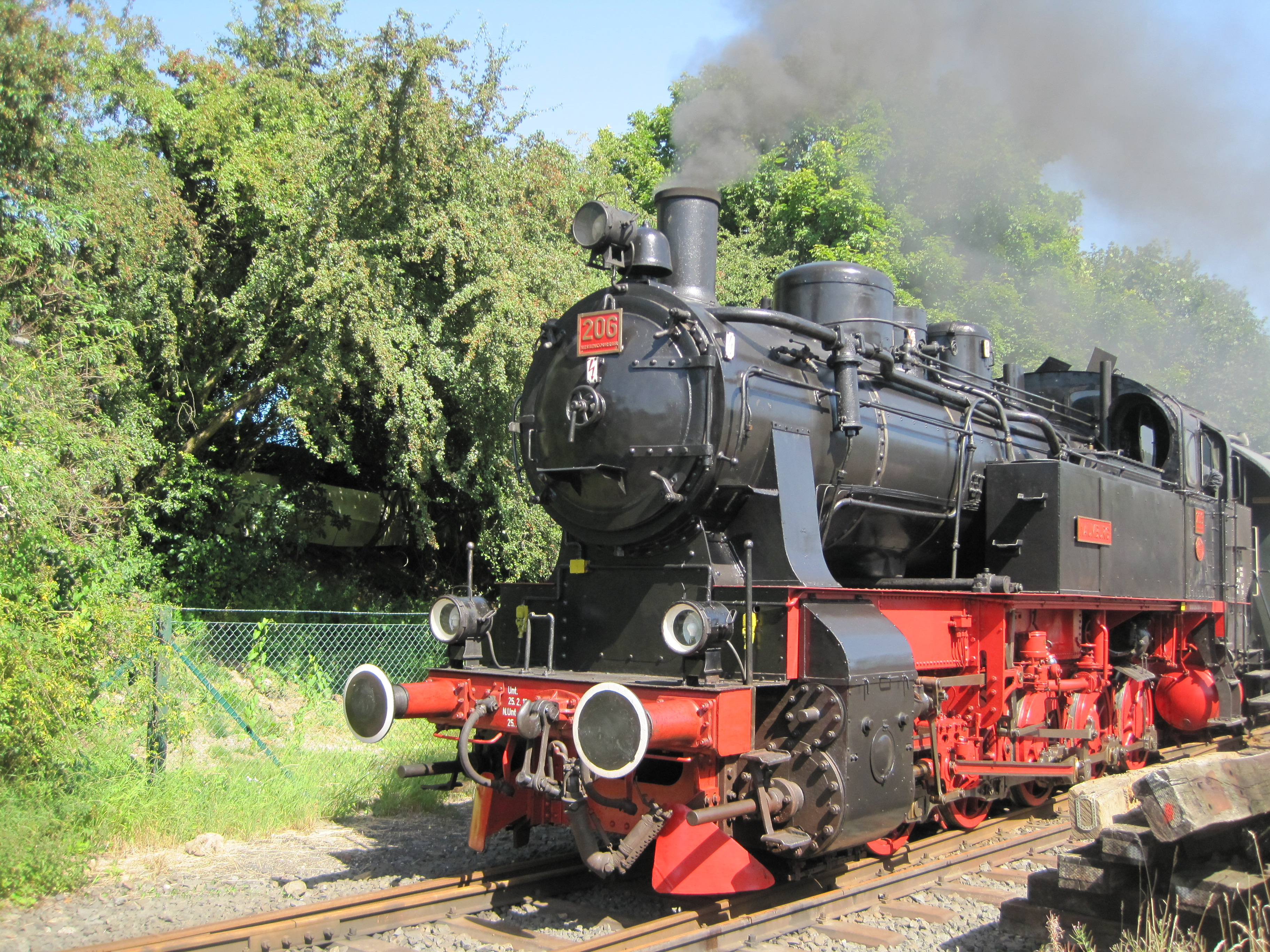 Steam locomotive HC 206, Bad Emstal, Germany check usage